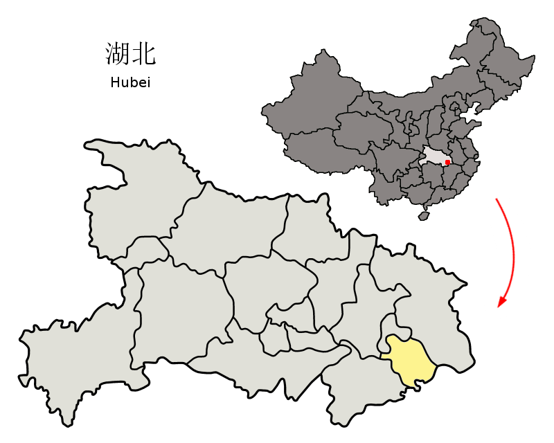 Location of Huangshi Prefecture (yellow) within Hubei Province of China Map drawn in december 2007 using various sources, mainly : Hubei Province administrative regions GIS data: 1:1M, County level, 1990 Hubei Counties map from